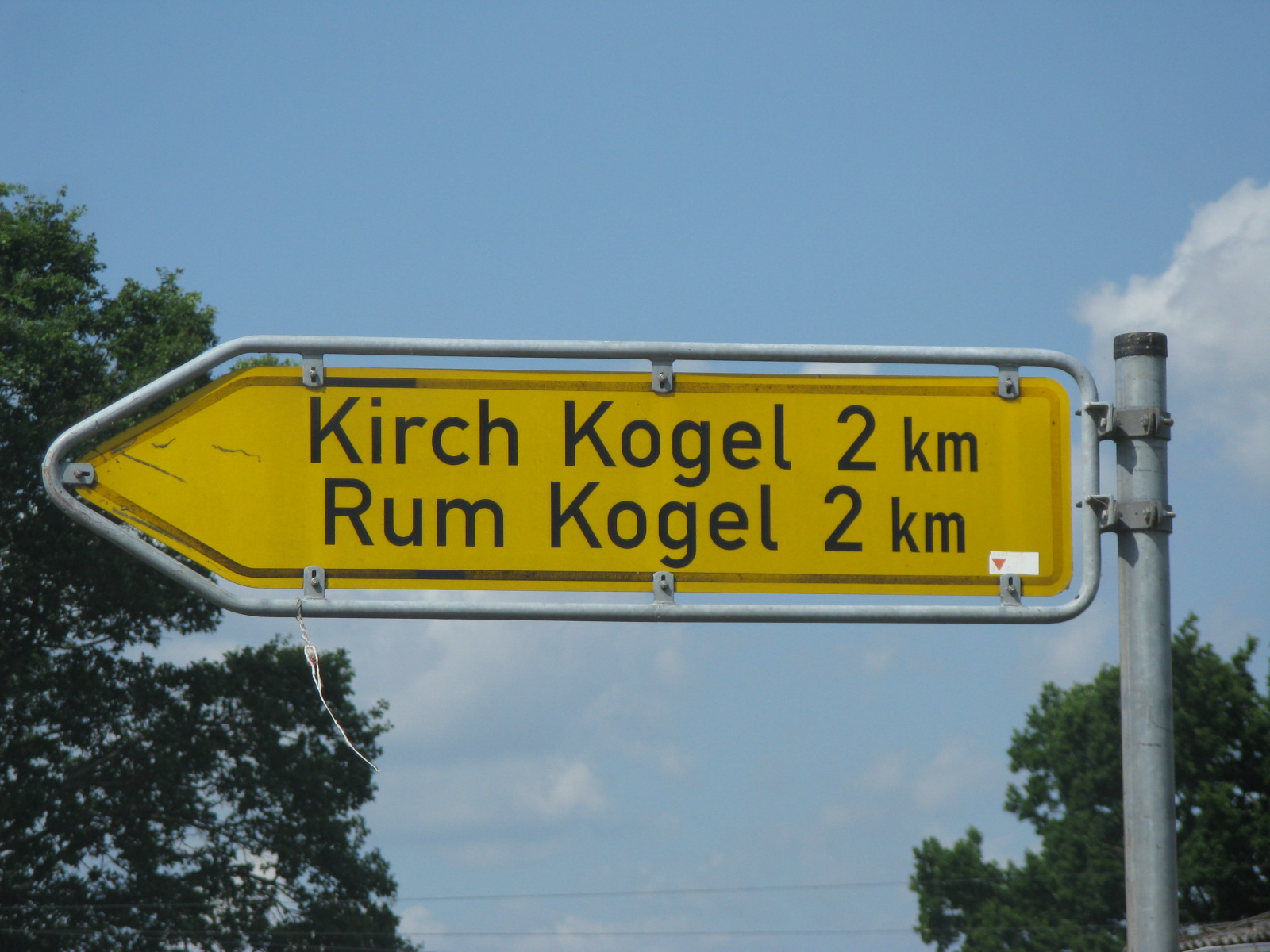 Fingerpost in Kirch Kogel/Rum Kogel, district Güstrow, Mecklenburg-Vorpommern, Germany